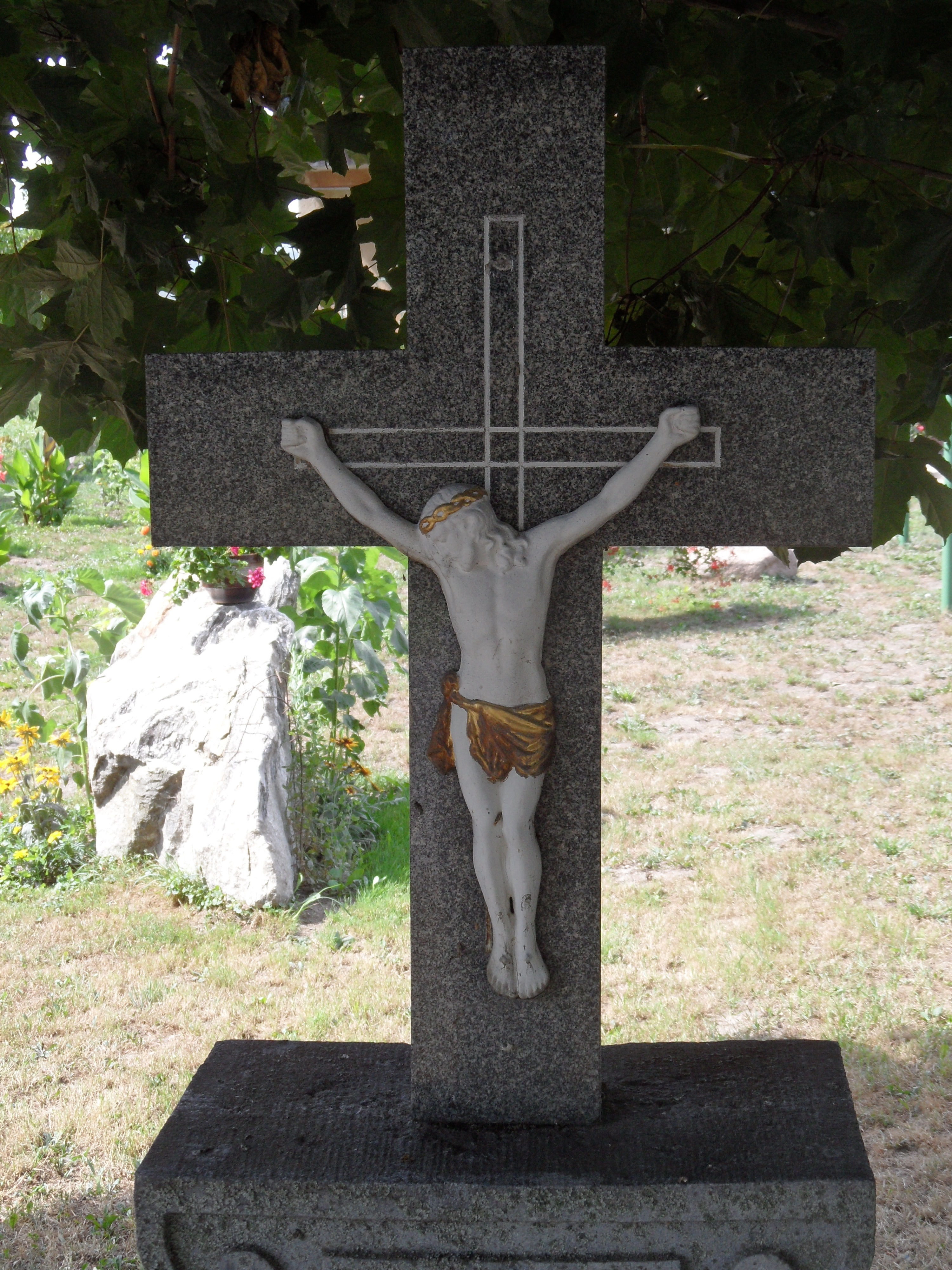 Dolní Fořt F. Crucifix: Detail. Jeseník District, the Czech Republic.